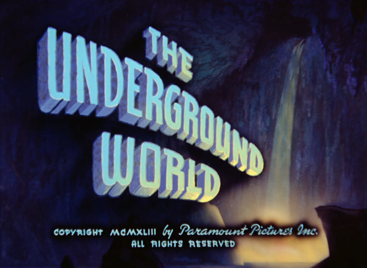 The title screen of the animated short The Underground World.